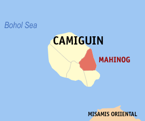 Map of Camiguin showing the location of Mahinog